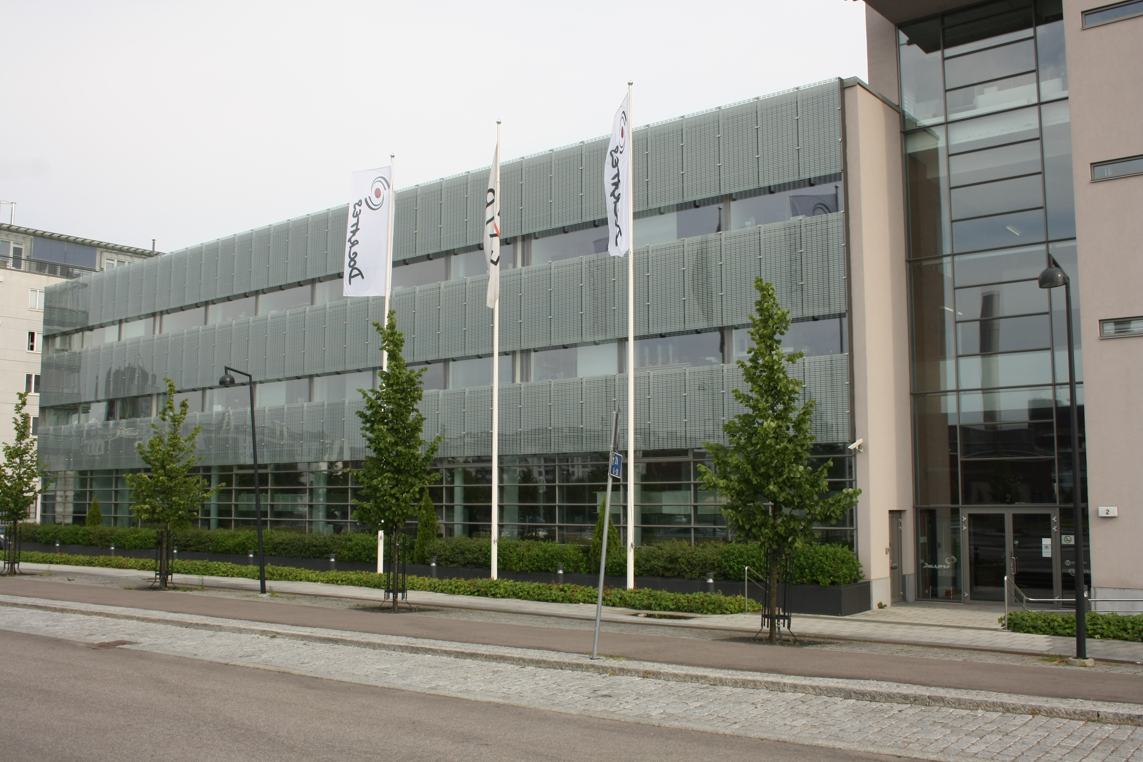 Hospital Docrates in Helsinki